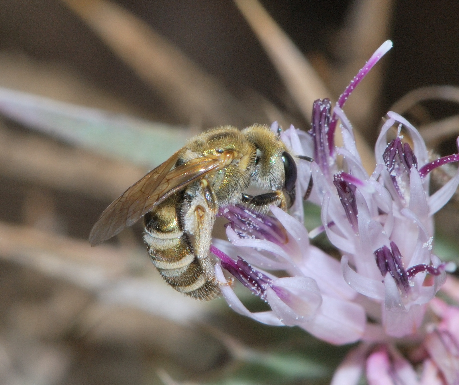 Halictus (Seladonia) subauratus meridionalis, female foraging on Carthamus tenuis, Mount Carmel, Israel, August 14, 2010.